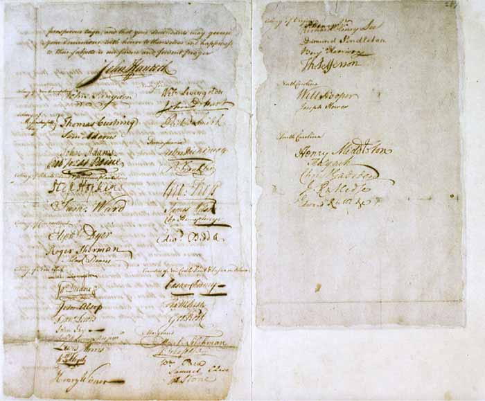 Olive Branch Petition